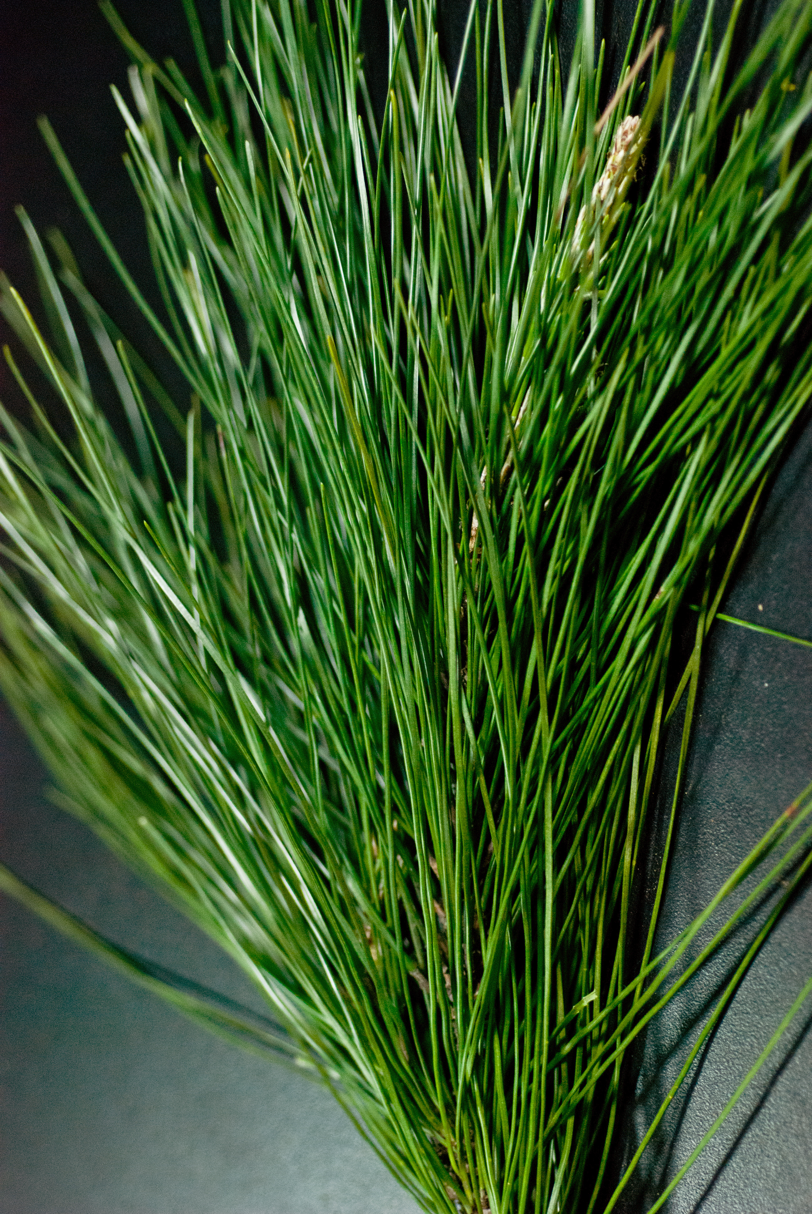 Pinus luchuensis foliage